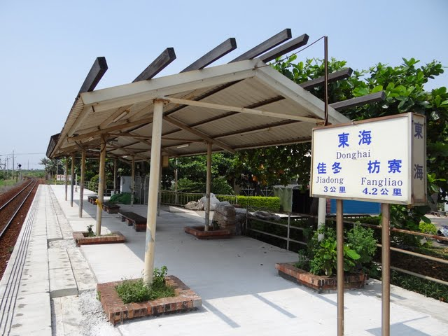 Taiwan Railway Administration Donghai Station.